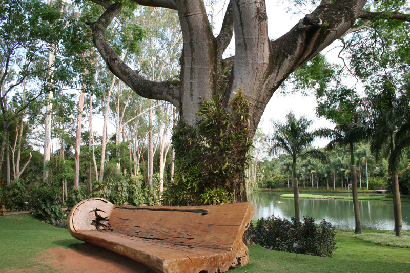 Inhotim